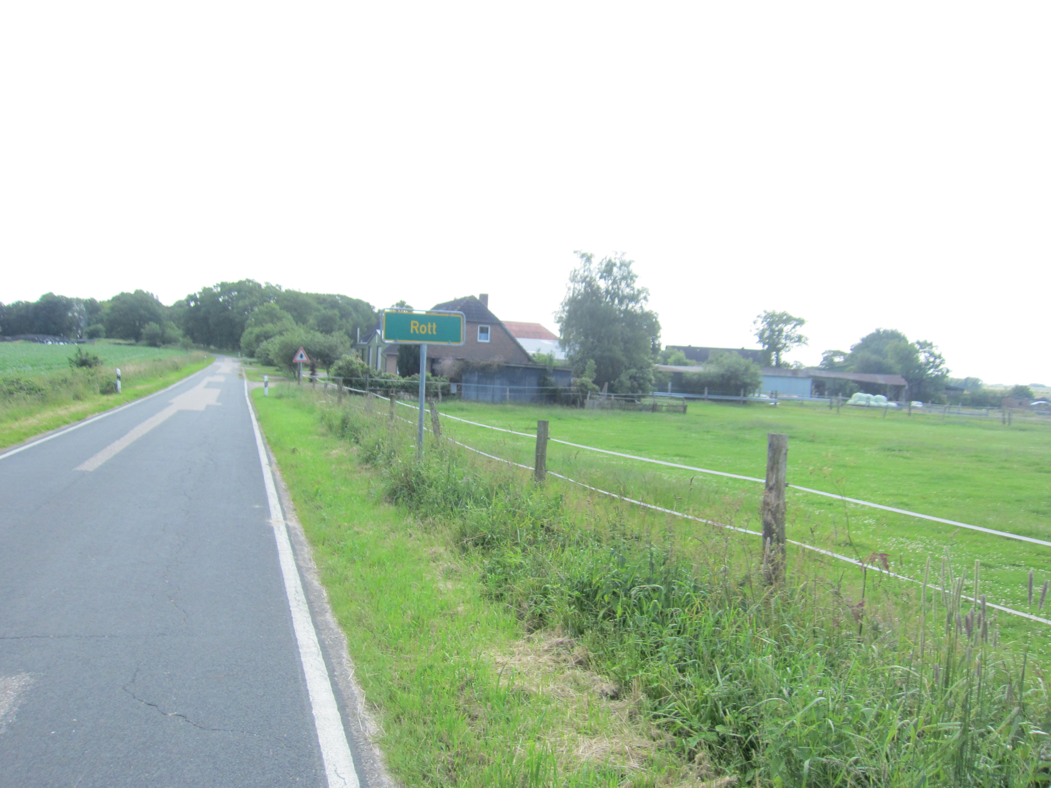 Town sign "Rott" in Ostenfeld (Husum)